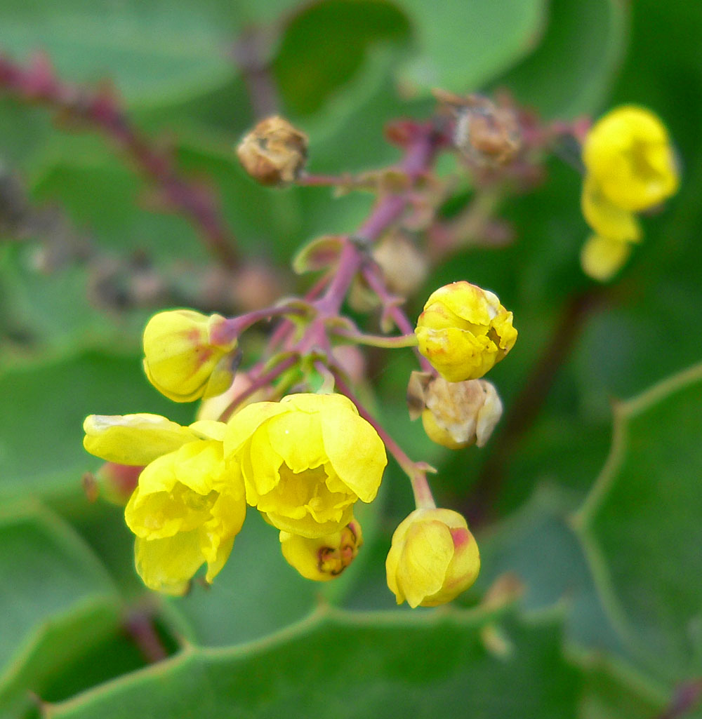 Photo of Mahonia repens (labelled M. amplectens) at the Regional Parks Botanic Garden, Berkeley, California